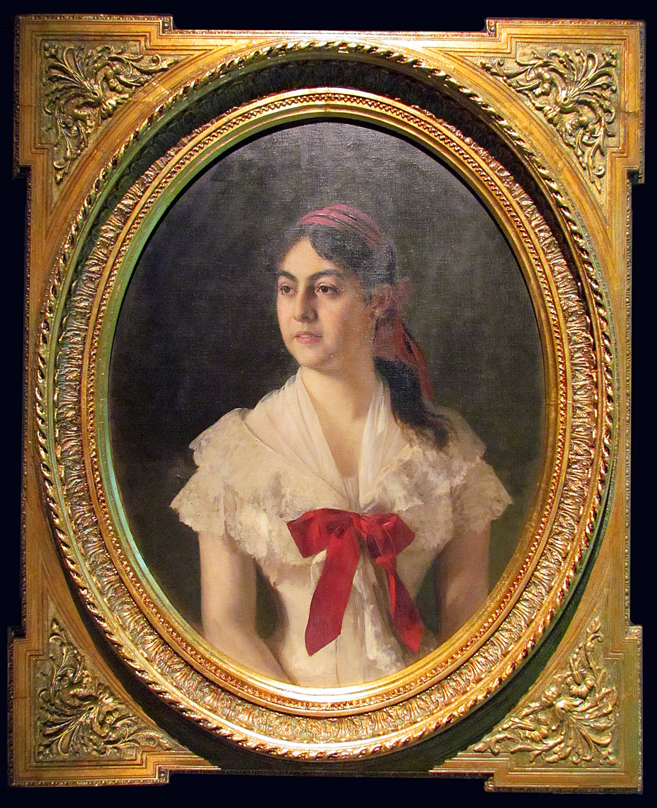 Vlaho Bukovac,Queen Natalija of Serbia,1882